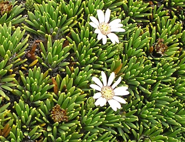 Xenophyllum humile, Asteraceae - Ecuador, near the volcano Chimborazo